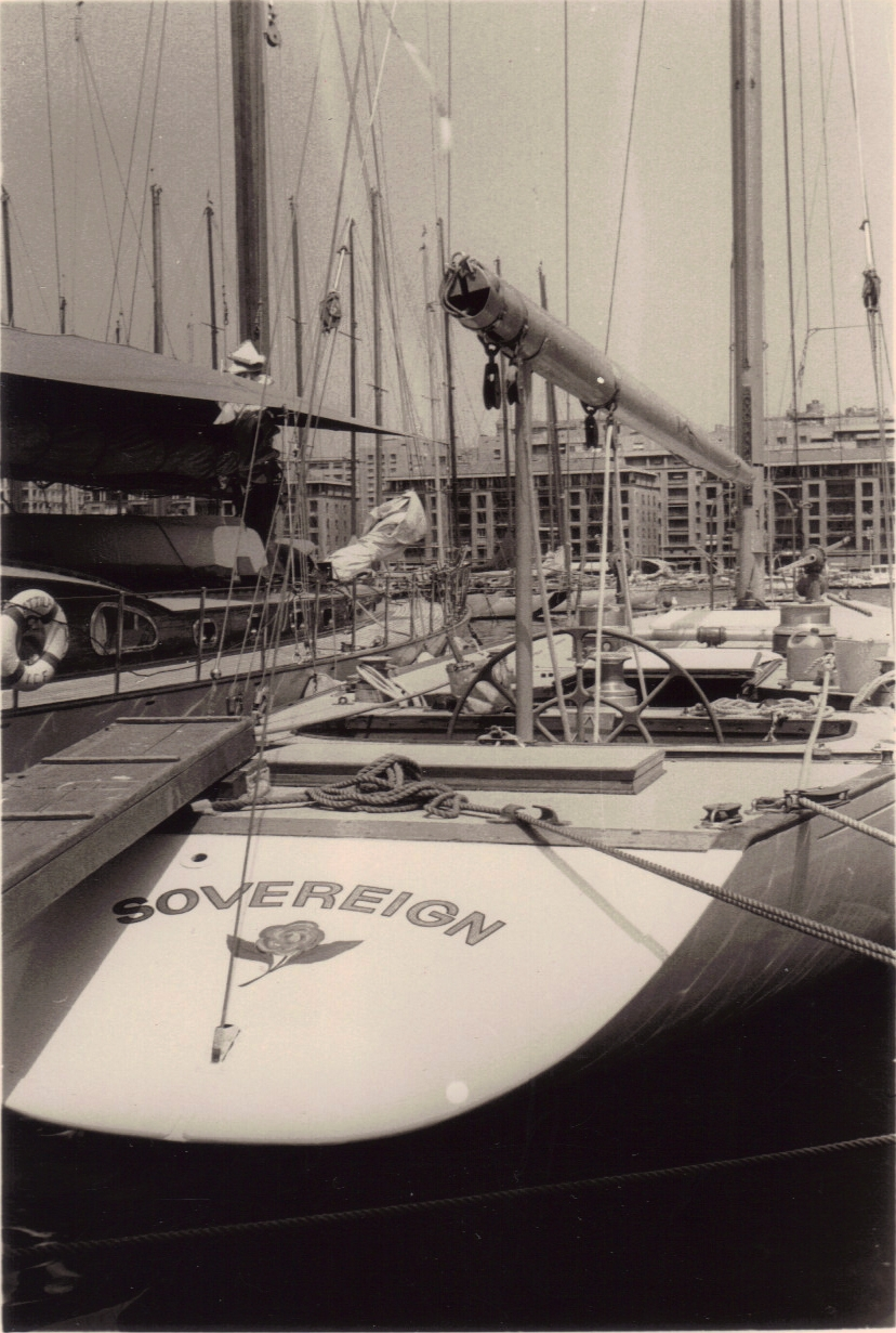 Sovereign in the Vieux-Port of Marseille in 1965 or 1966, new owner Marcel Bich, to prepare the first America Cup french challenge